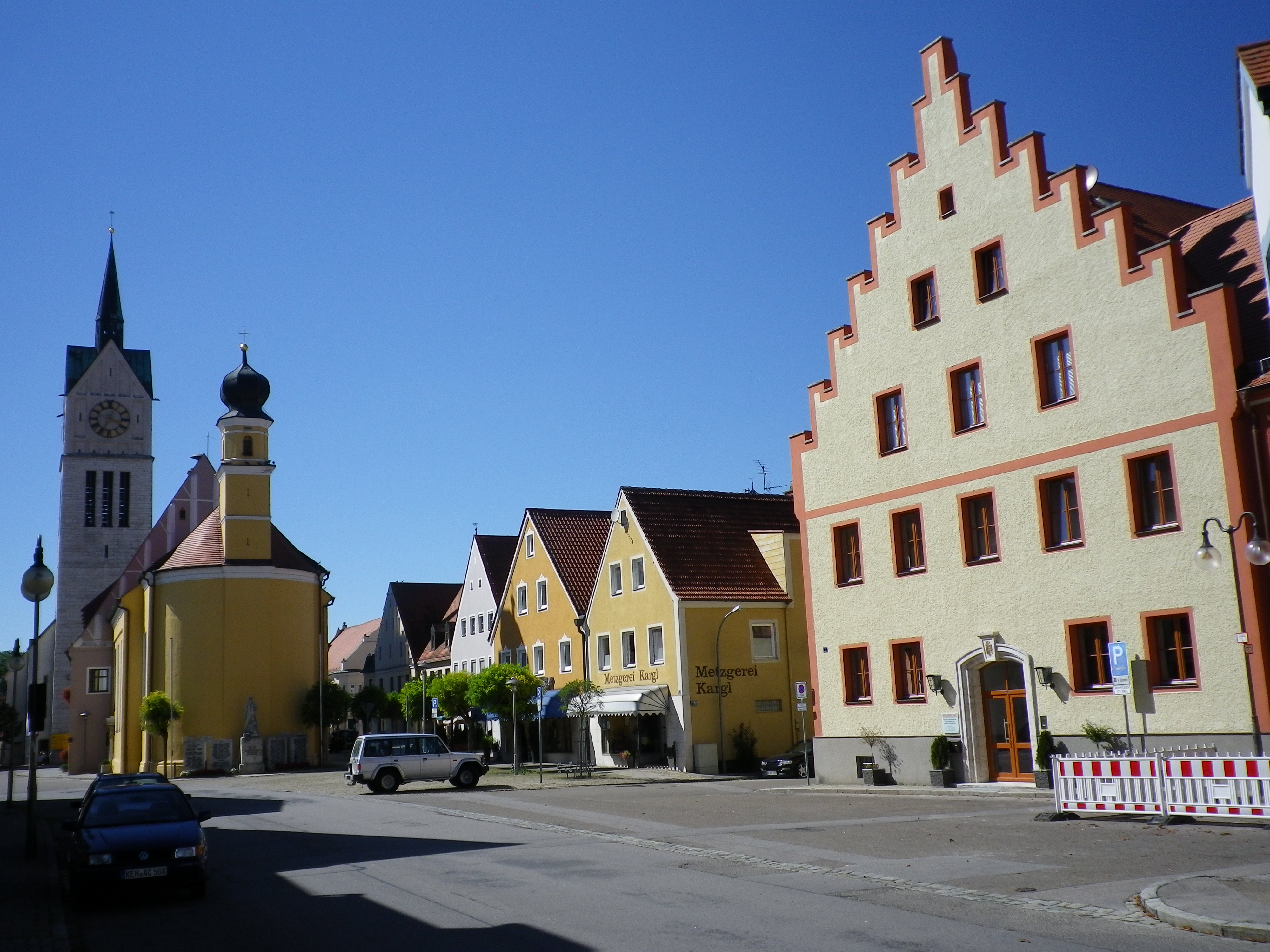 This is a photograph of an architectural monument.